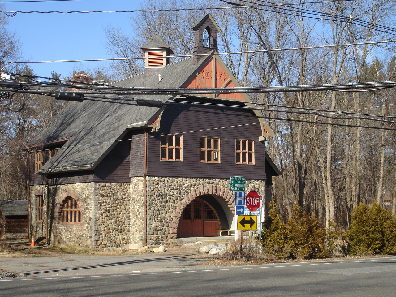 I took this photo of the Darlington Schoolhouse myself on February 5, 2012.